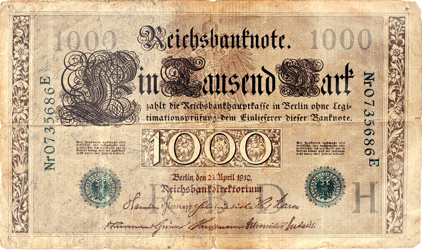 Front side of a 1000 Mark banknote issued 1910. Green label - after Dec 1918